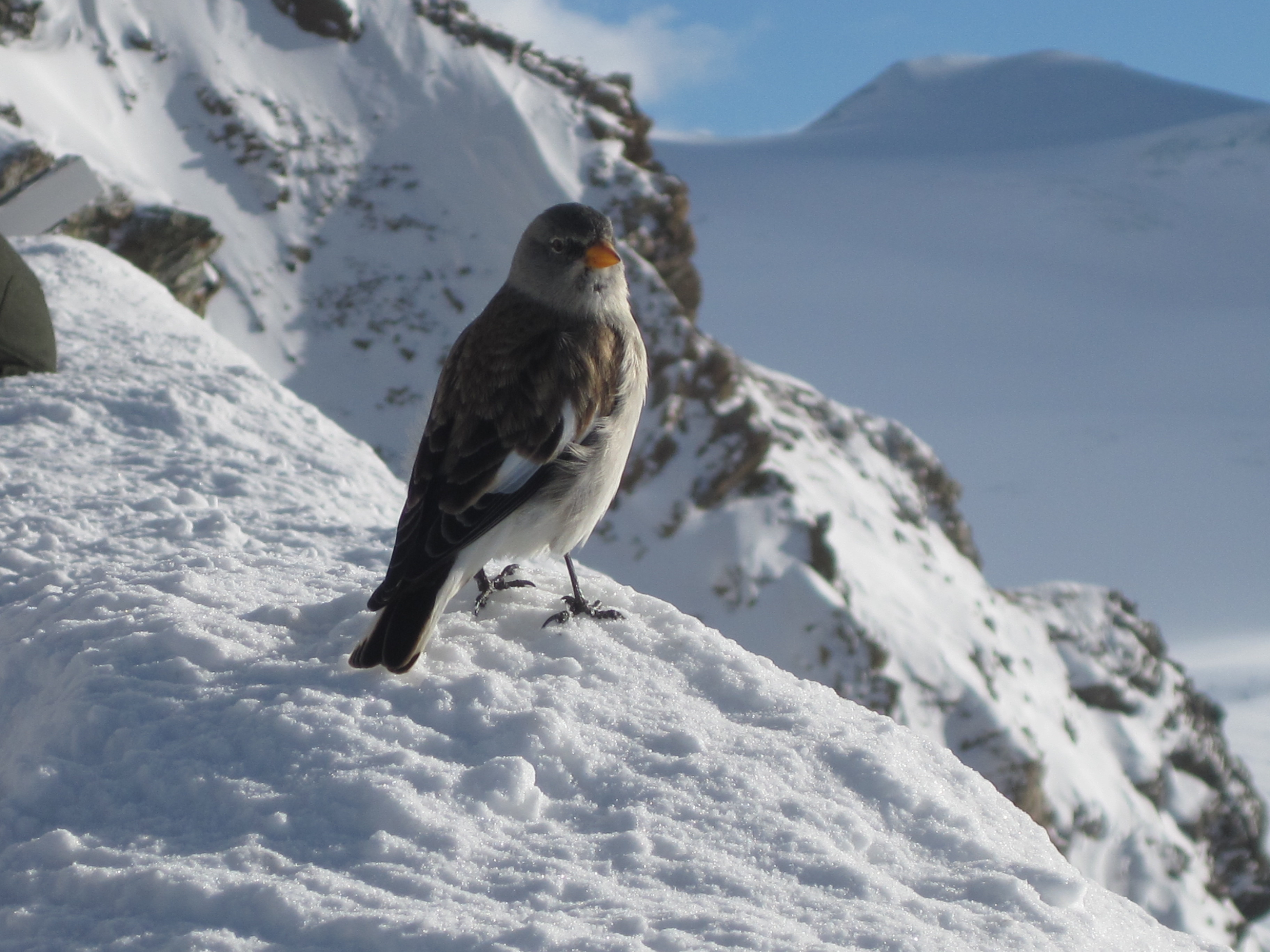 White-winged Snowfinch on Gornergrat in the Swiss Alps at about 10,000 ft ASL. Photographed in December 2009 - the bird is in winter colours including an orange beak.